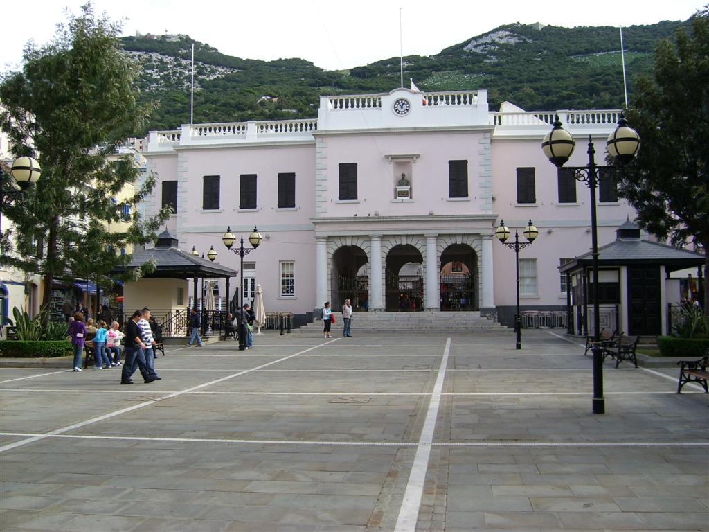 View of the façade of the Gibraltar Parliament from John Mackintosh Square, Gibraltar.